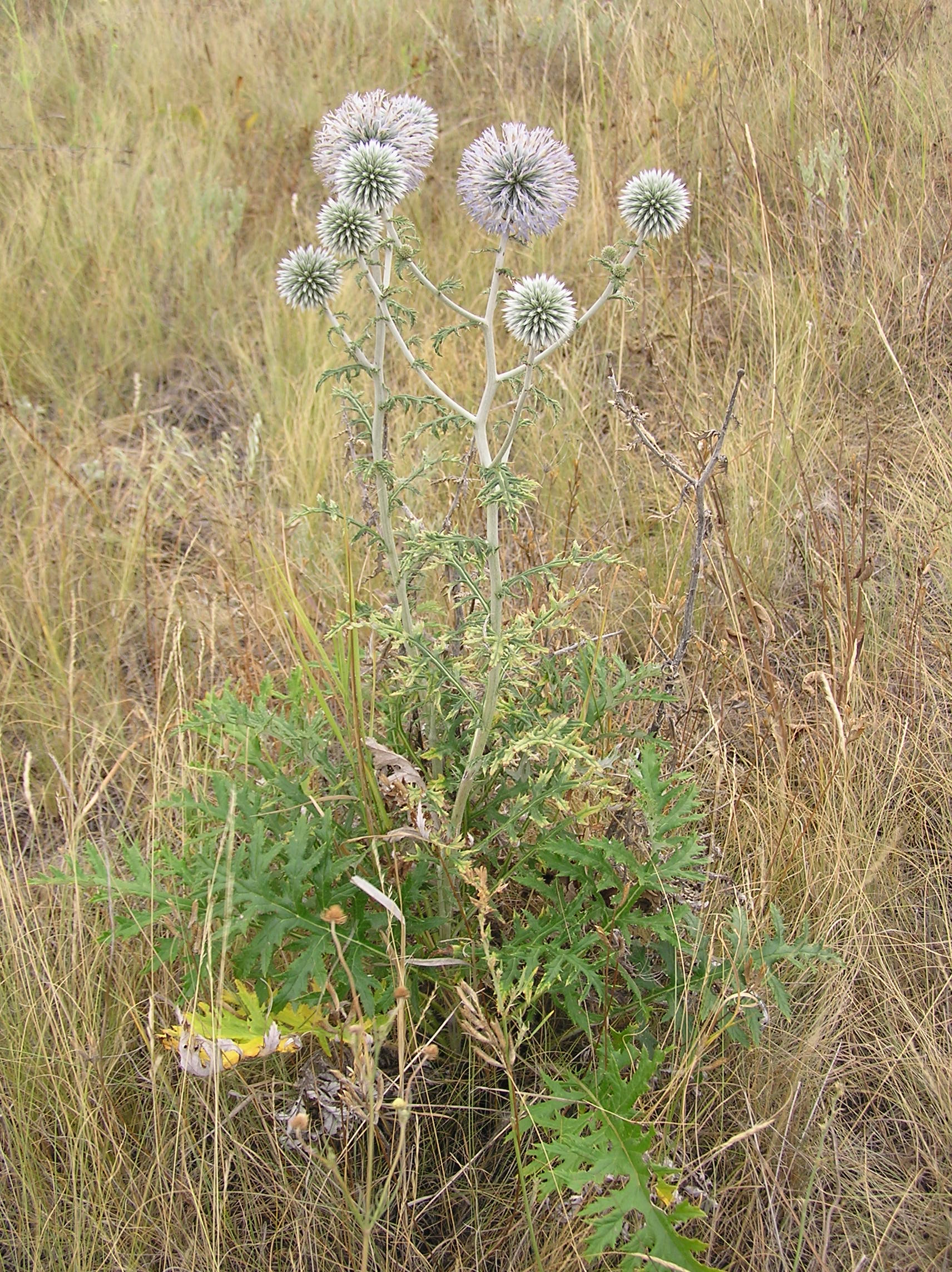 Echinops sphaerocephalus L. (Great globe thistle or Pale globe-thistle), habitus. Habitat: saline steppe. Vicinity of Saratov city, Russia.